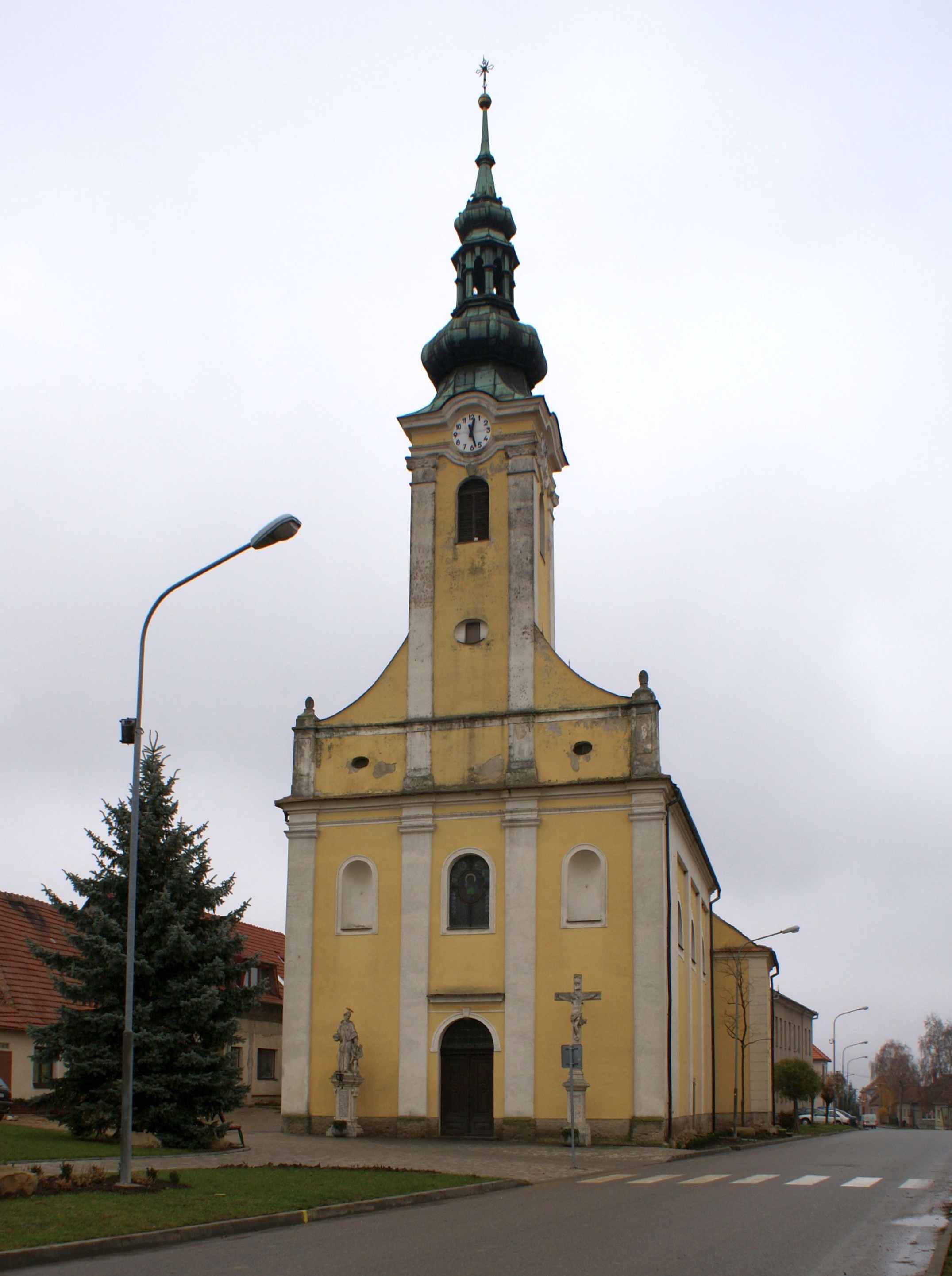 Church in Popice village